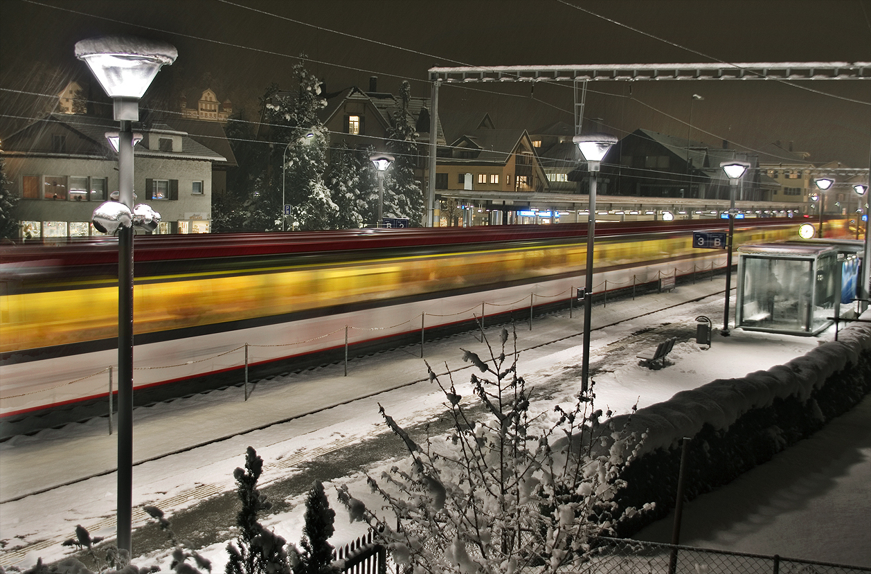 Winternight at Railwaystation Sarnen